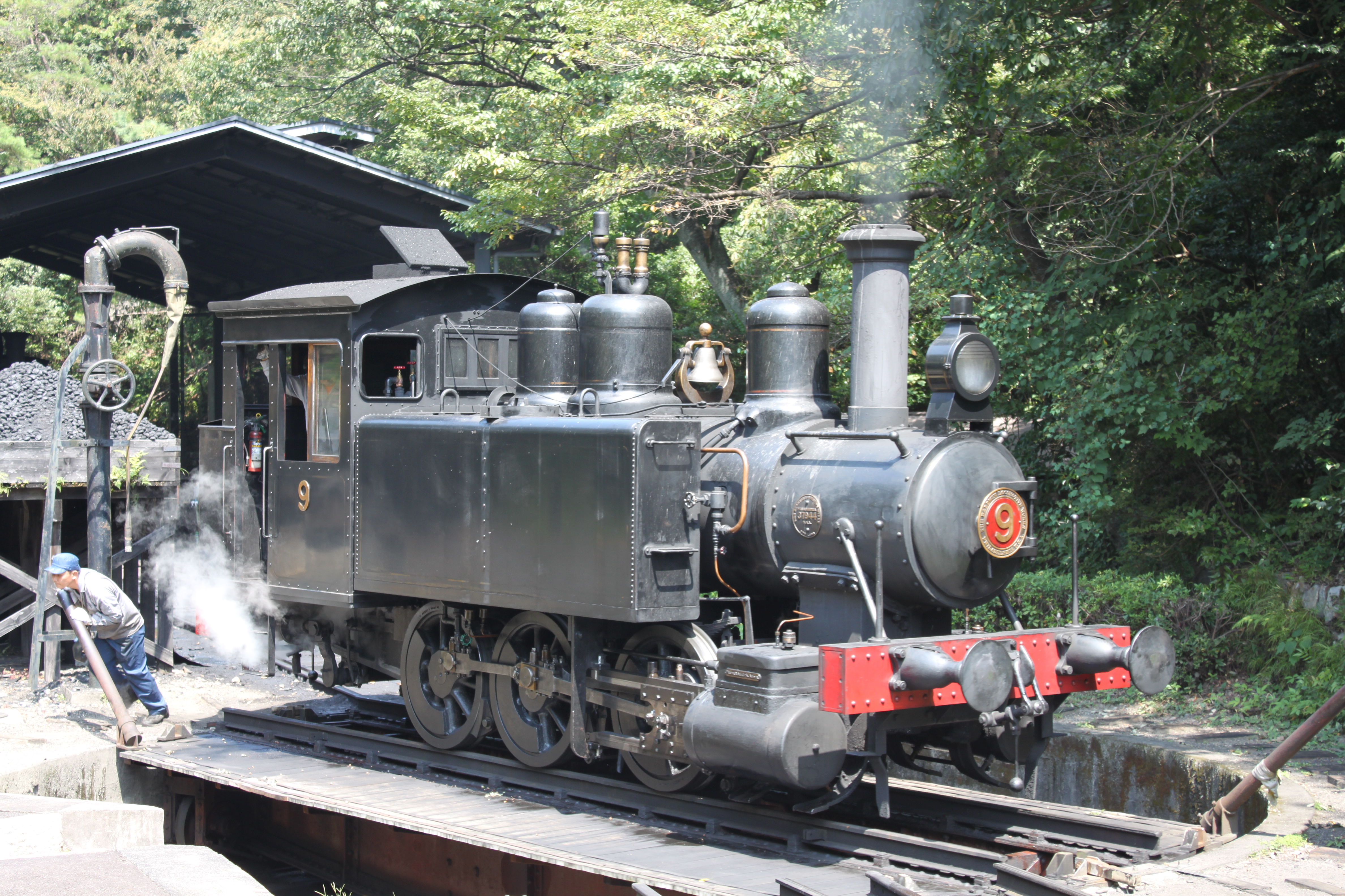 Meijimura No.9 steam locomotive